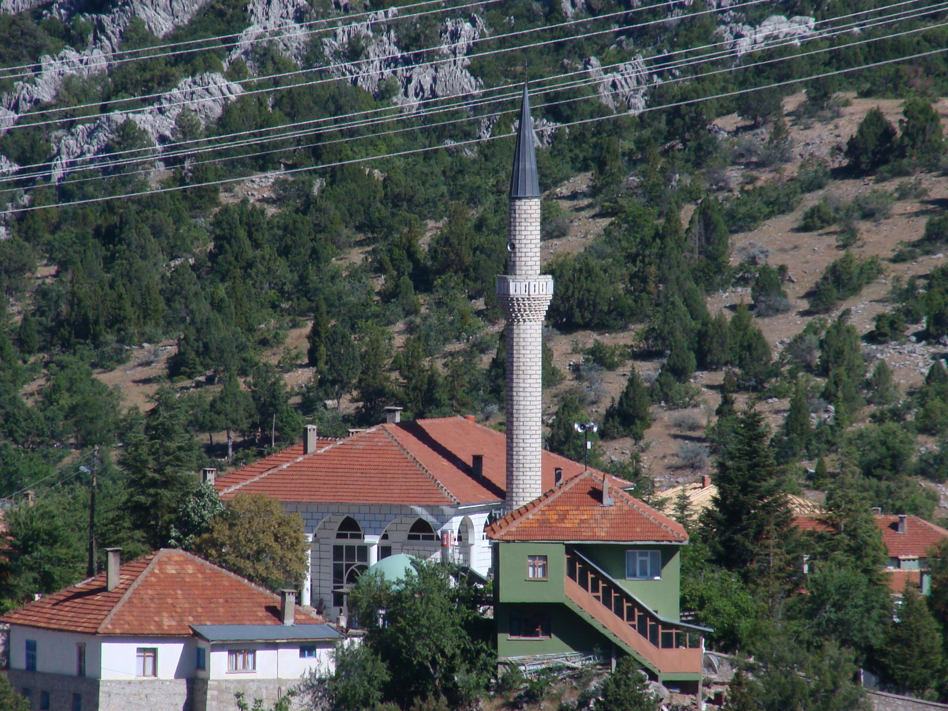 A view from Süleymaniye village, Akseki, Antalya Province.